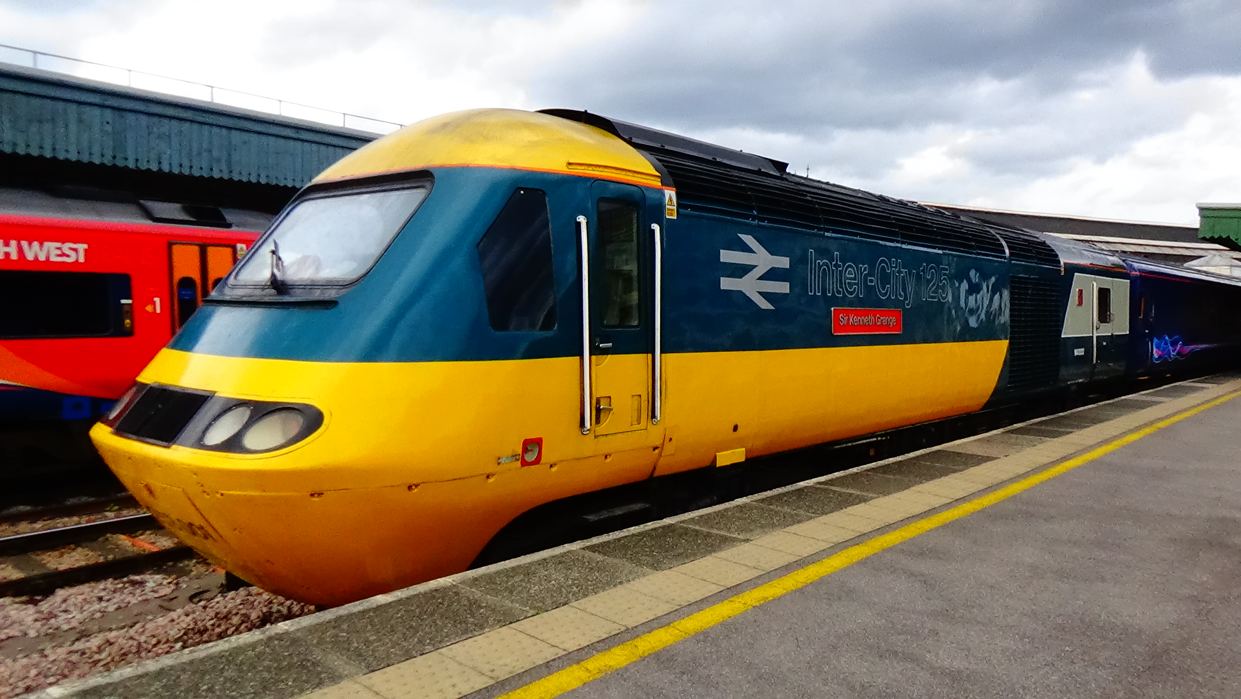 W43002 at Bristol Temple Meads.